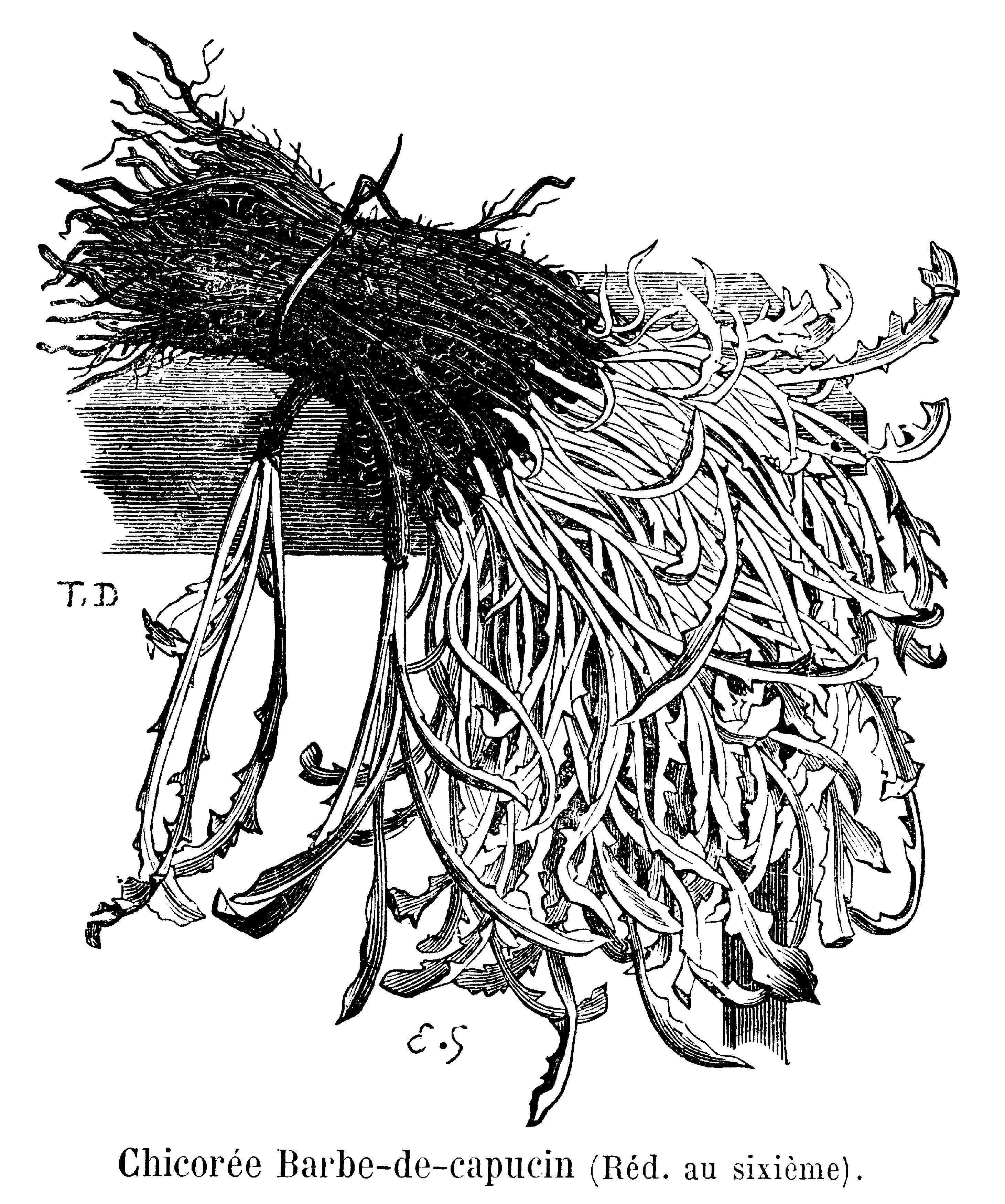 Capuchin beard chicory